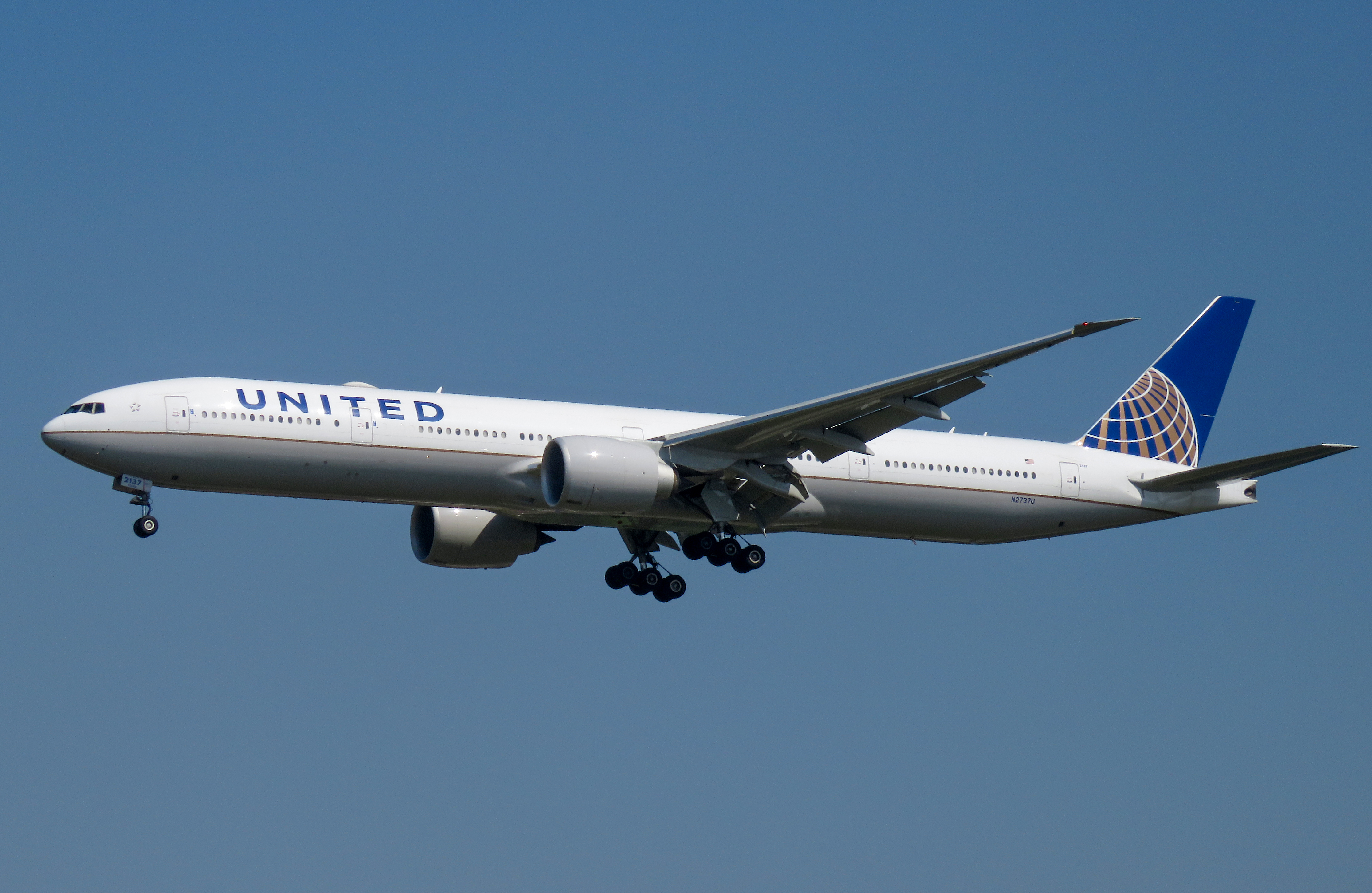 United 888 from San Francisco. Missed that A7-BAX who landed 36L.